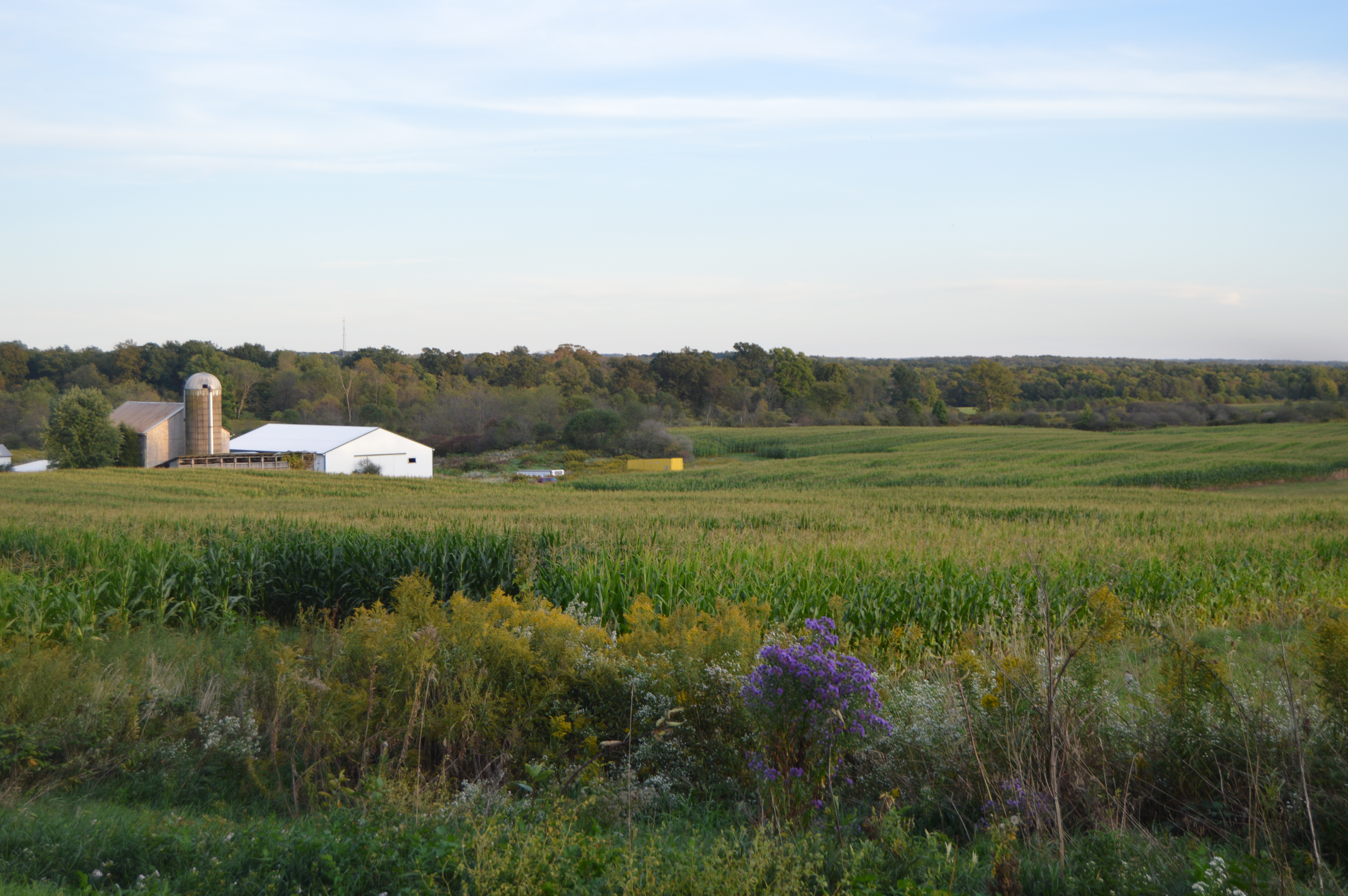 Agricultural scene on the southern side of Gilmore Road, southwest of Centertown, in Wolf Creek Township, Mercer County, Pennsylvania, United States.